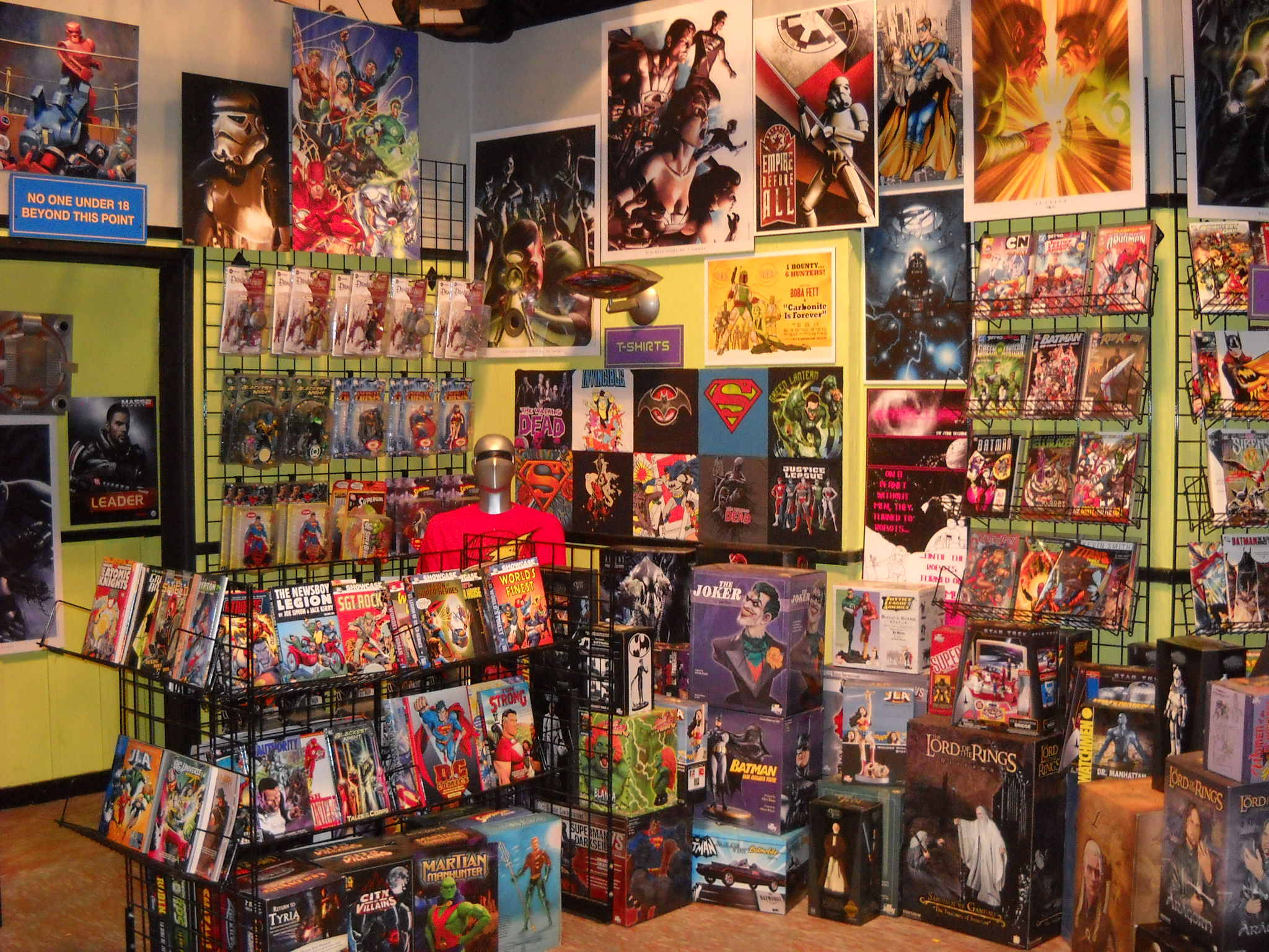 The Big Bang Theory sets at the Warner Bros. Studios, Burbank.